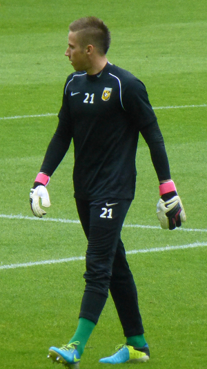 Marko Meerits in GelreDome prior to the match Vitesse vs. Feyenoord